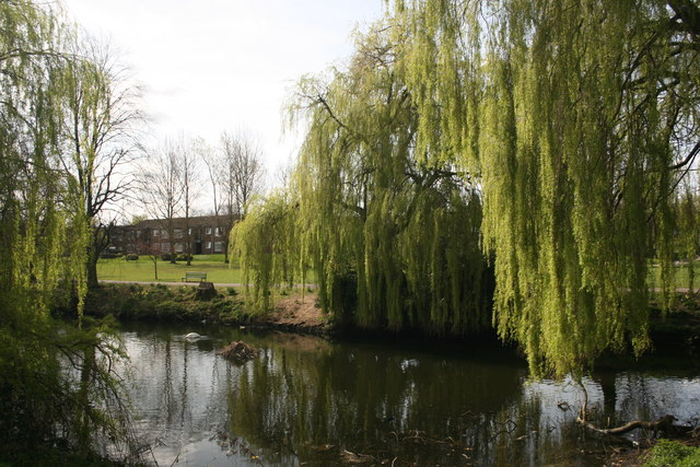 Green shoots of spring The first green shoot of spring reflecting in Brookvale park lake.